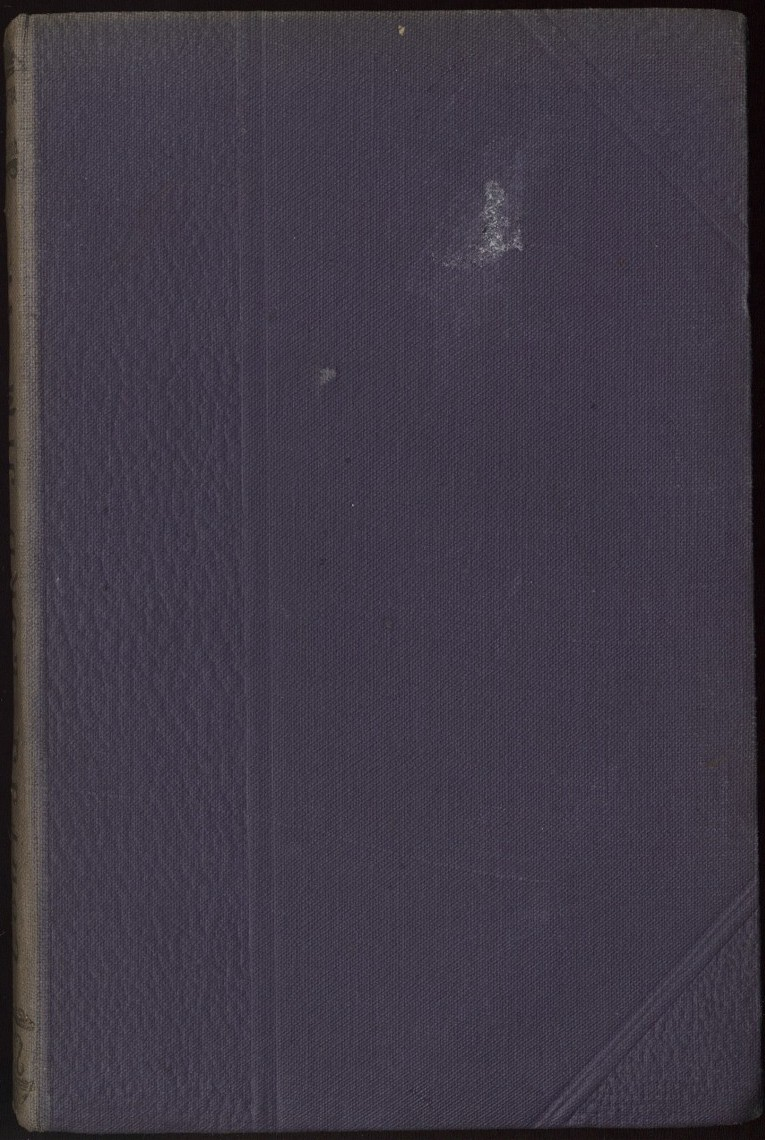 novel